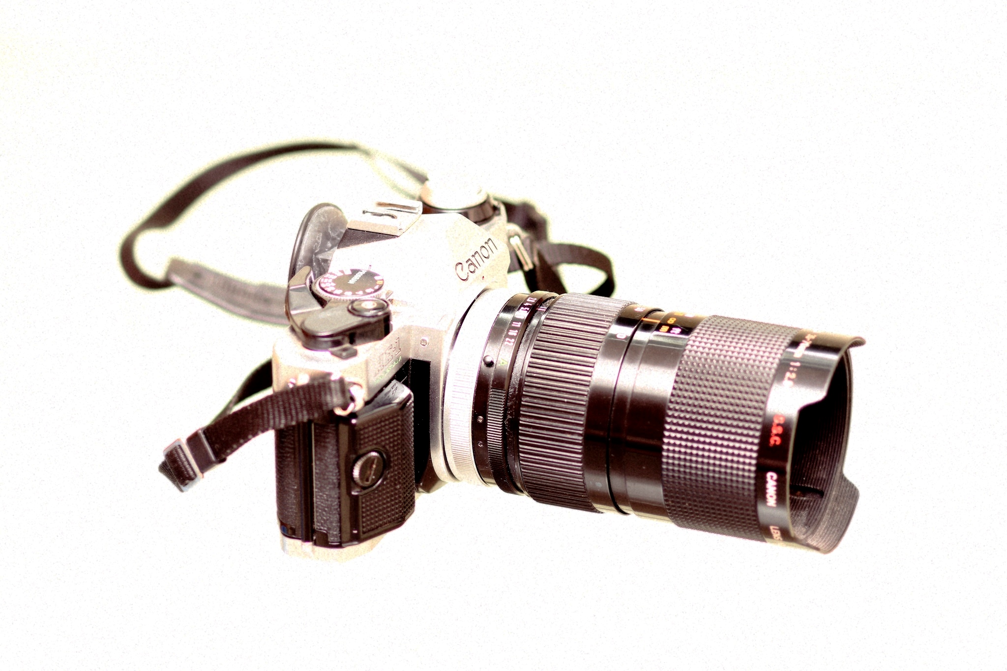 AE-1 Film Camera. AE stood for Automatic Exposure.